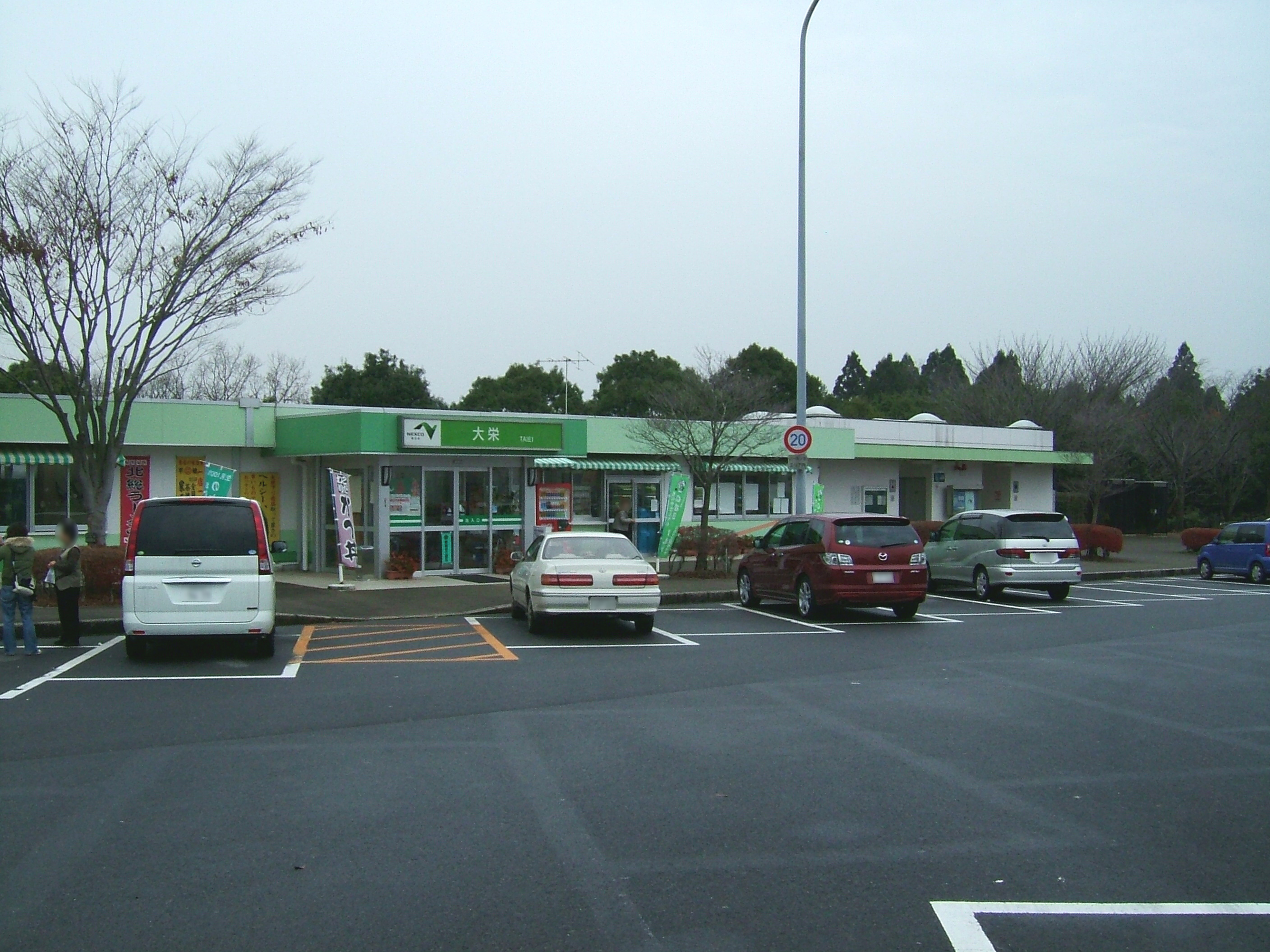 Taiei rest area in Higashi-Kanto Expressway